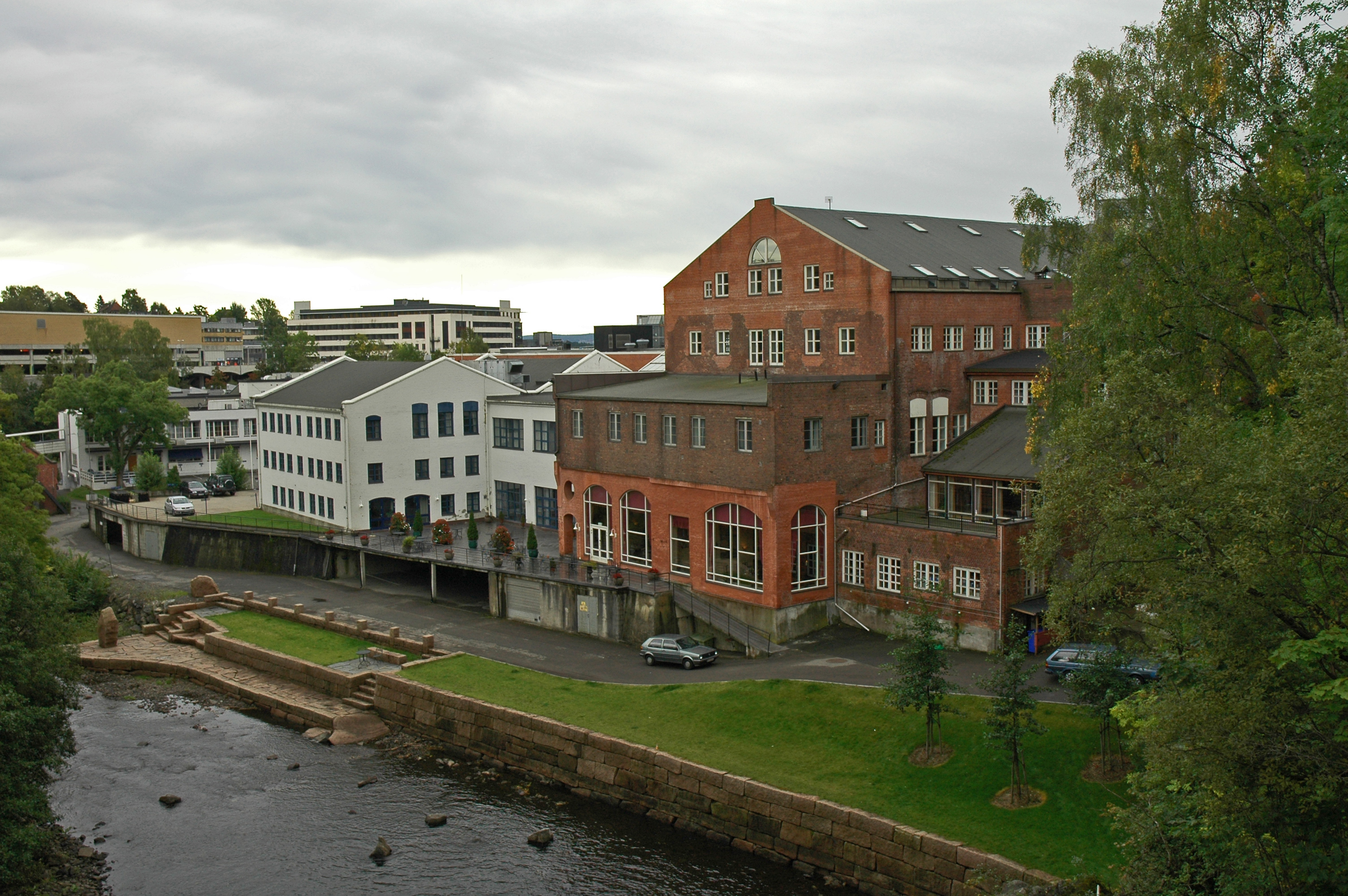 Lilleaker in Oslo seen from Fåbro (a bridge over Lysakererlven), near Granfos, in Norway. The building at the far left is CC Vest shopping mall at Lilleaker.